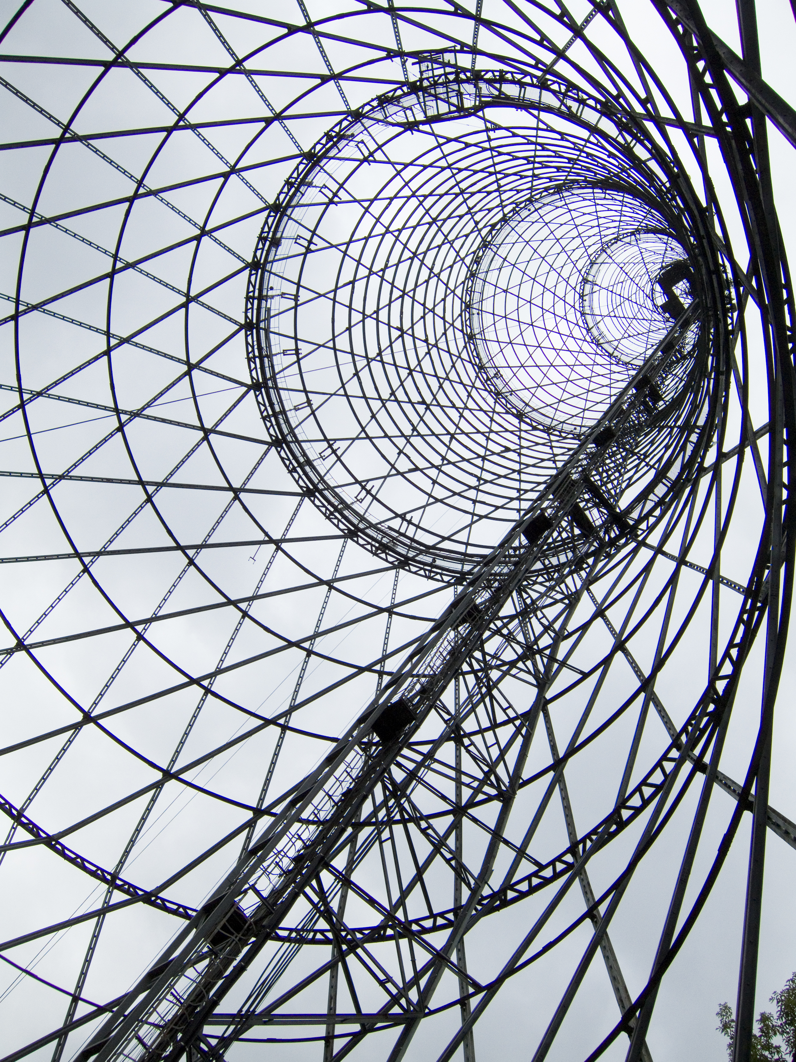 The Shukhov radio tower (Russian: Шуховская башня), also known as the Shabolovka tower is a broadcasting tower in Moscow designed by Vladimir Shukhov. The 160-metre-high free-standing steel structure was built in 1919–1922 during the Russian Civil War. It is a hyperboloid structure (hyperbolic steel gridshell).